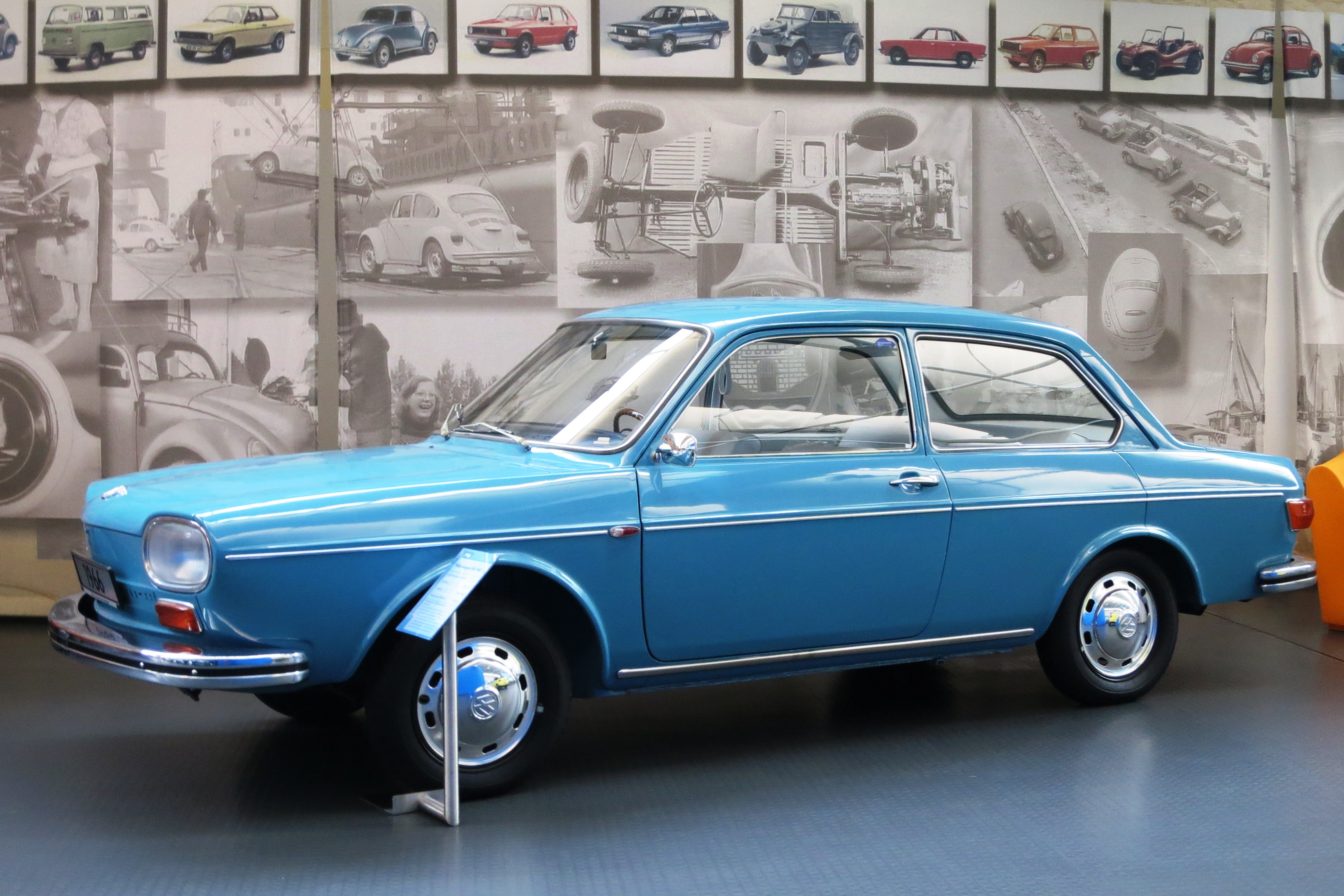 Volkswagen EA142 (411 notchback prototype 1966)